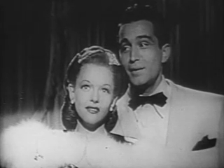 Perry Como and Vivian Blaine in the final act in the 1946 film Doll Face